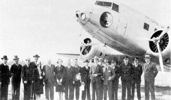 Photo of first commercial flight into Tallahassee Local call number: Rc00691 Title: [First scheduled flight of Eastern Airlines through Tallahassee] [graphic] Publication info: 1938. Physical descrip: 1 photoprint : b&w ; 6 x 9 in. Series Title: (Reference collection) General Note: L-R: Ben H. Bridges, Mayor J.R. Jinks, Honorable Robert Ramspect, Captain Eddie Rickenbacker, Mrs. Joe Giddens, Wilet Moore, Mrs. Jewell Puckett, City manager H.P. Ford, Ralph McGill, Colonel C.L. Waller, W.B. Hartsfield, Smythe Gambrel, C.F. Palmer, Paul Brattain, Sidney L. Shannon, Captain W.S. Dawson, W.V. Crowley.